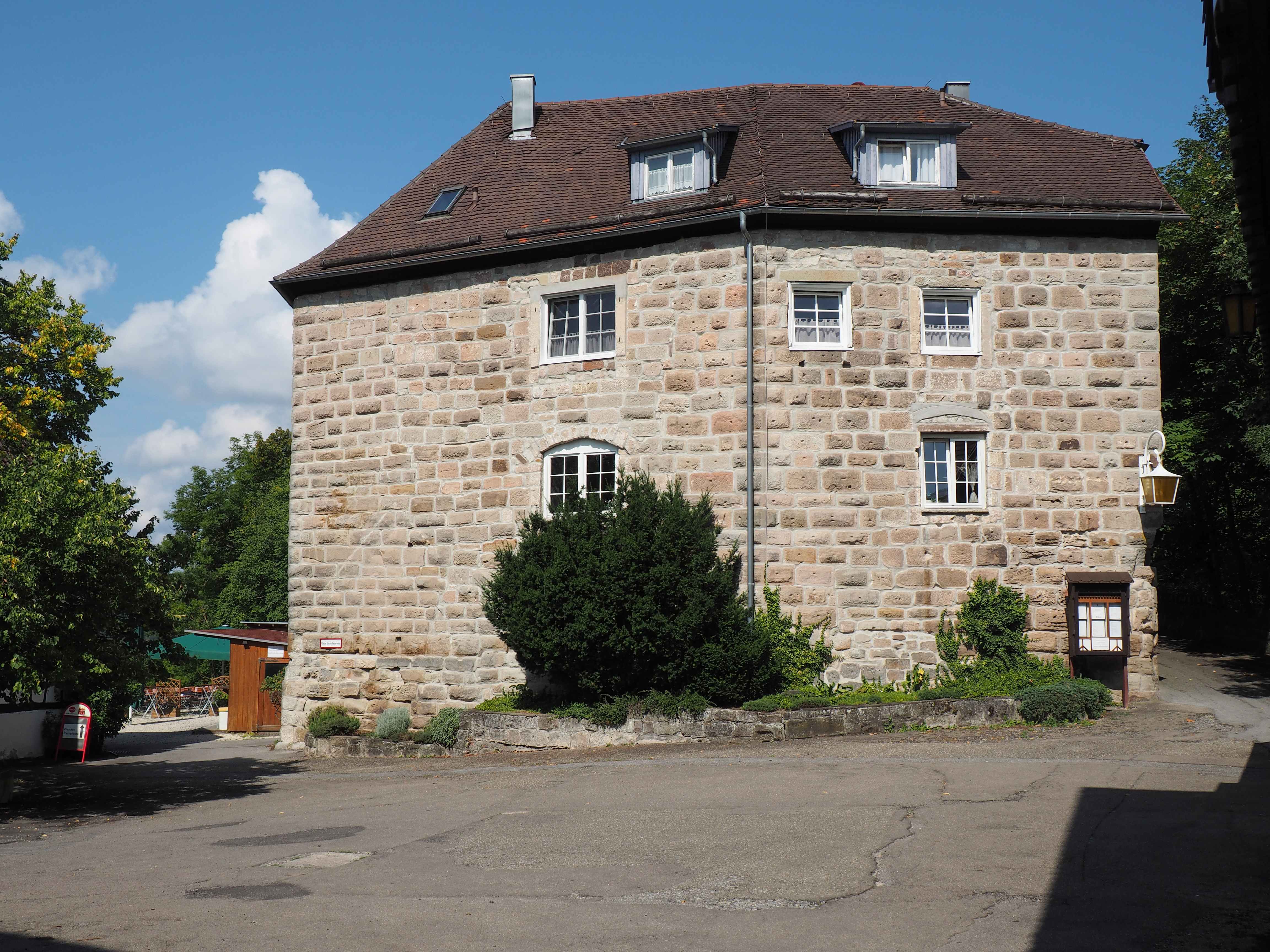 Castle Waldenstein in Rudersberg, in the Rems-Murr District